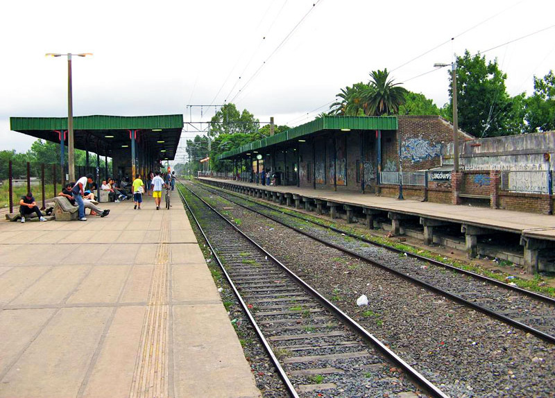 Longchamps Train Station